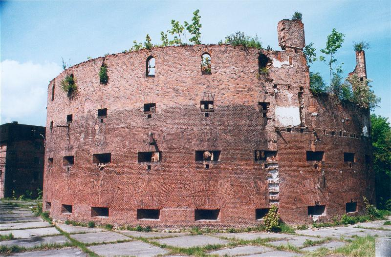 Fryderyk Wilhelm (Montalembert) fort in Koźle.